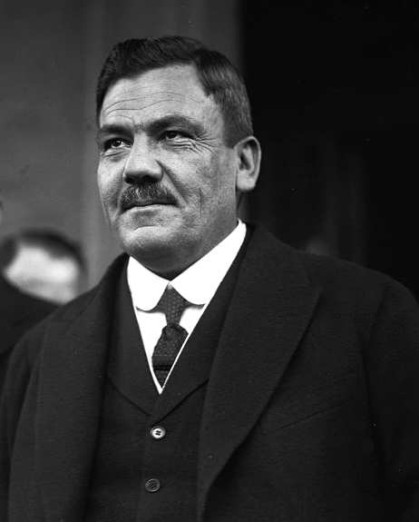 Photograph of former Mexican President, Plutarco Elías Calles. Image cropped, contrast increased, and paint applied using Photo Editor at